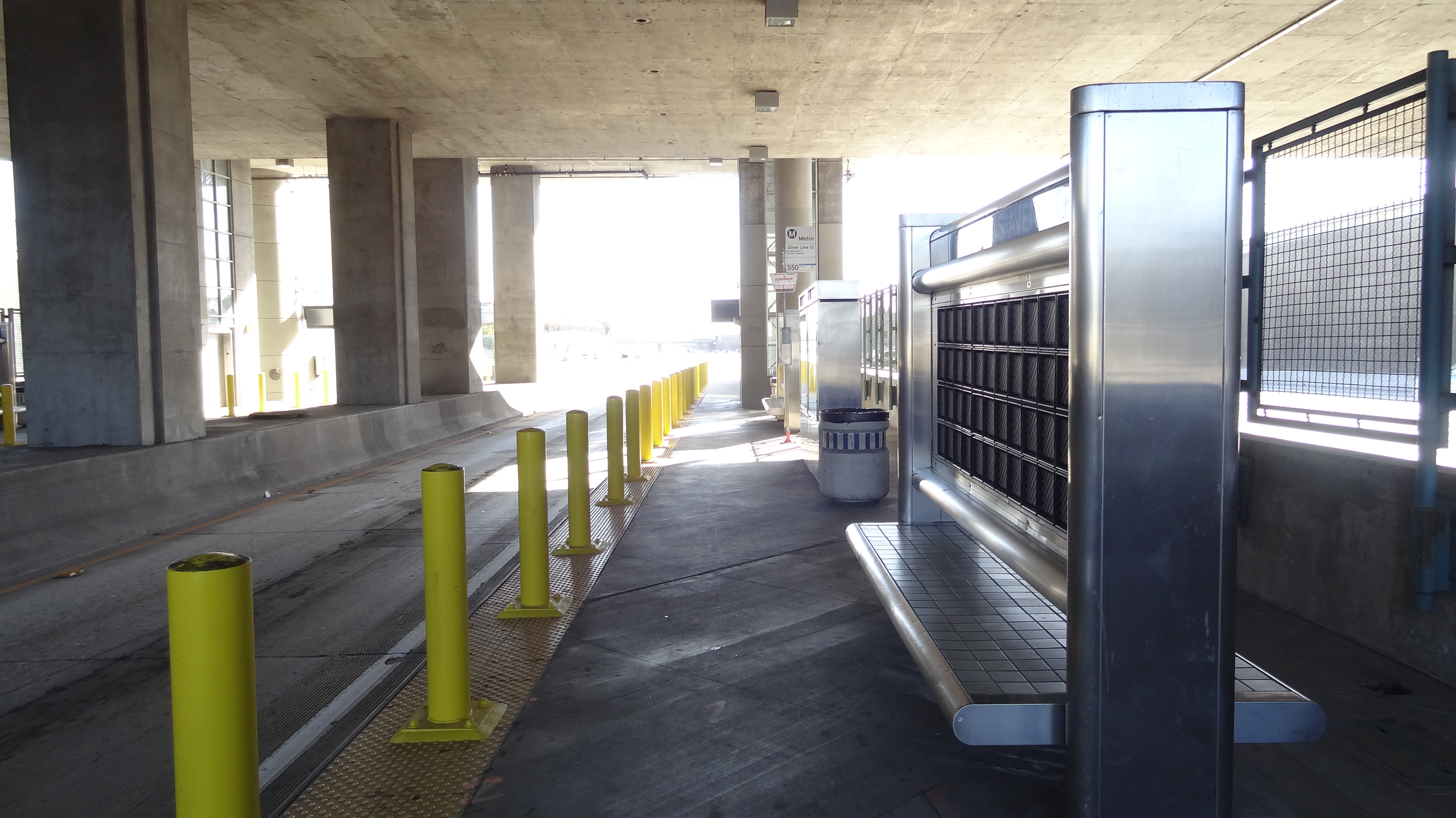 Rosecrans Metro Silver Line Station platform